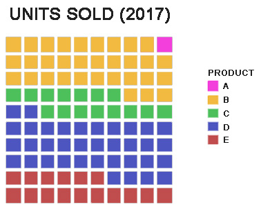 Depicts a Square Pie Chart, also known as a Waffle Chart. They look like grids and are usually 10x10, where each cell represents 1%. However they can be any shape, from circles, to pictograms, or other shapes. The benefit is that they are easier to read smaller percentages than on circular pie graphs.